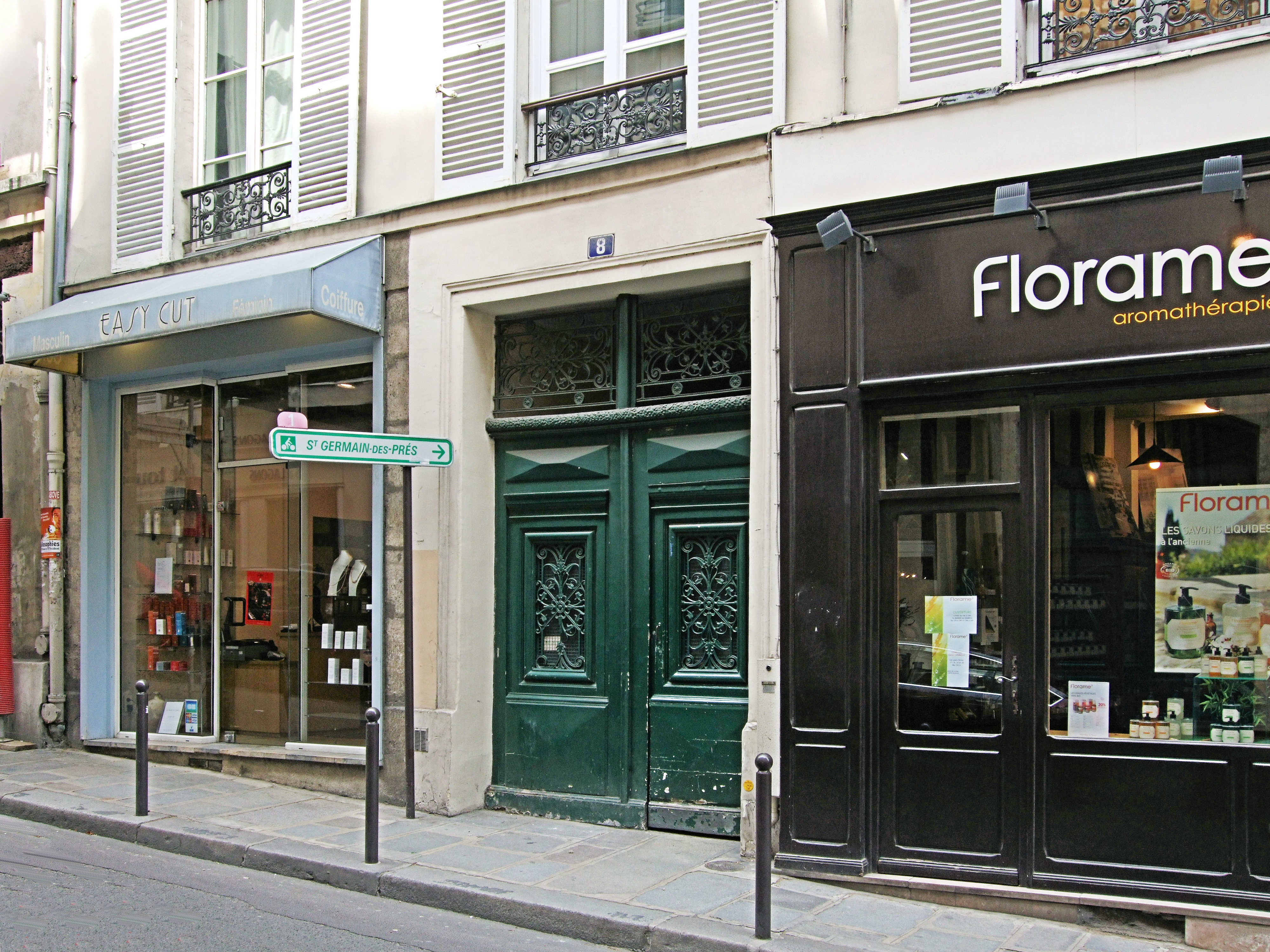 The first Shakespeare and Company Bookshop, 8 Rue Dupuytren, Paris.